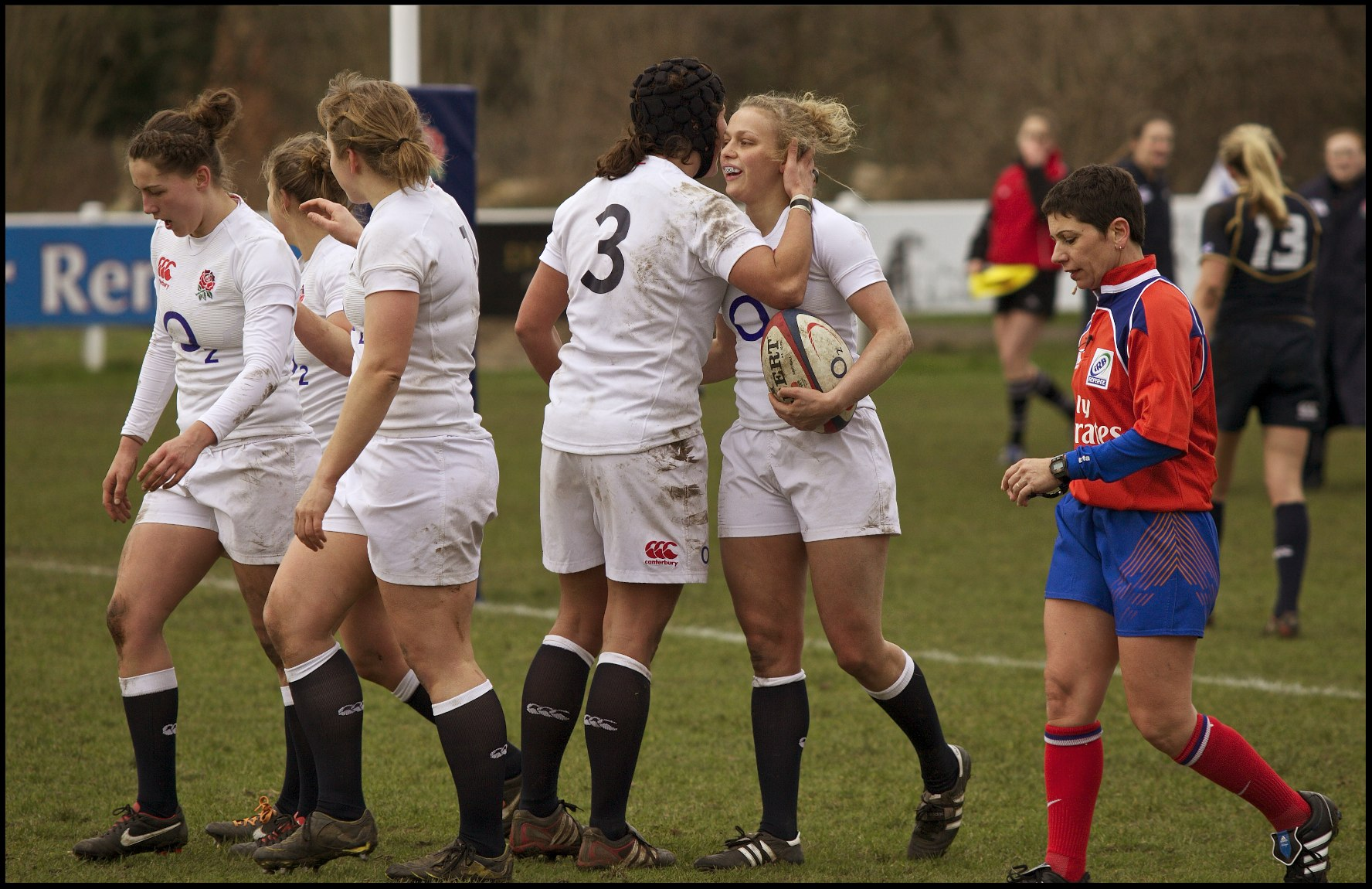 Congratulations and celebrations after a Kay Wilson first half try for England at Esher Rugby this afternoon. The result was... England 76 : 0 Scotland